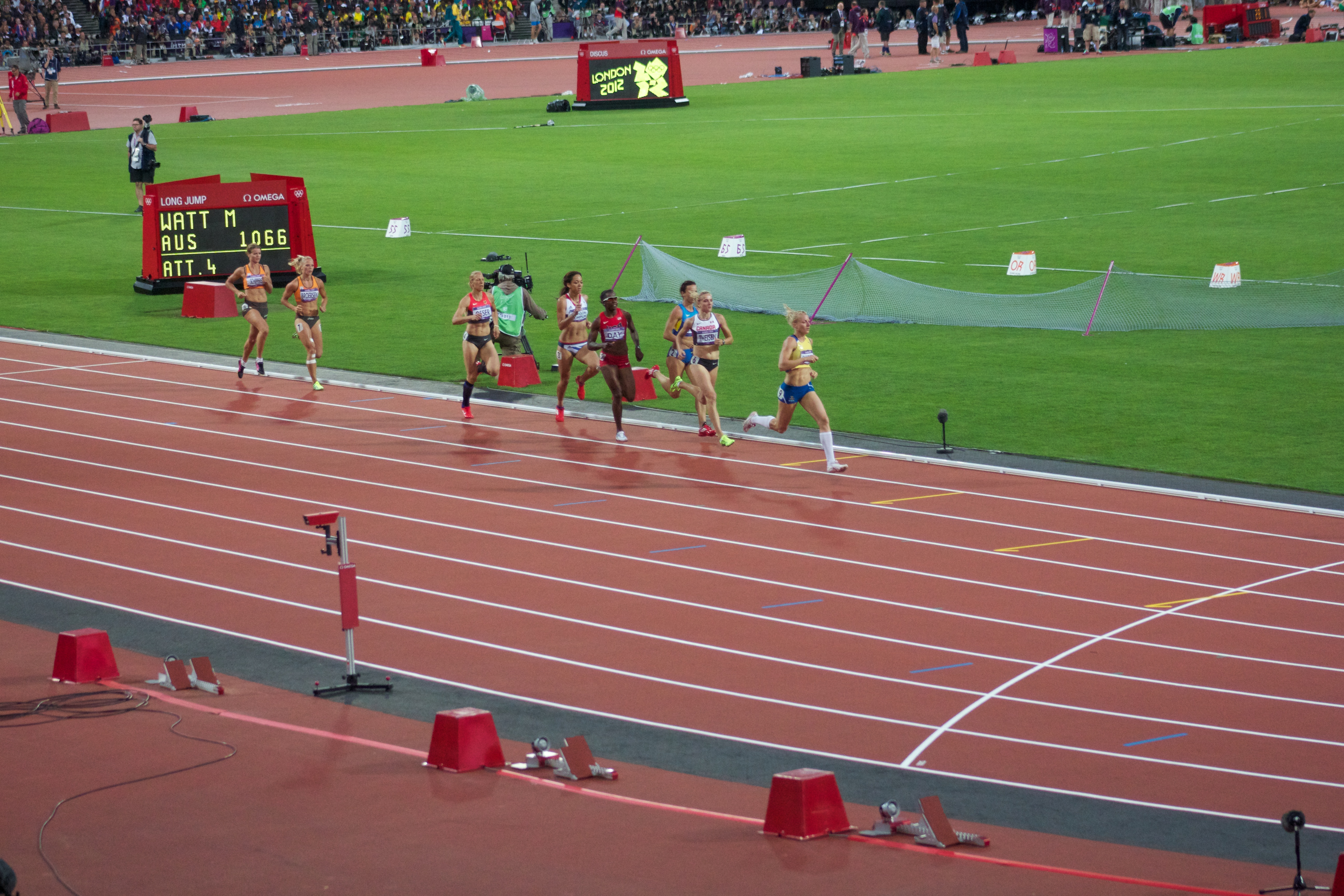 Women's Heptathlon 800m, Dafne Schippers, Nadine Broersen, Jennifer Oeser, Katarina Johnson-Thompson, Sharon Day, Hanna Melnychenko, Brianne Theisen, Jessica Samuelsson